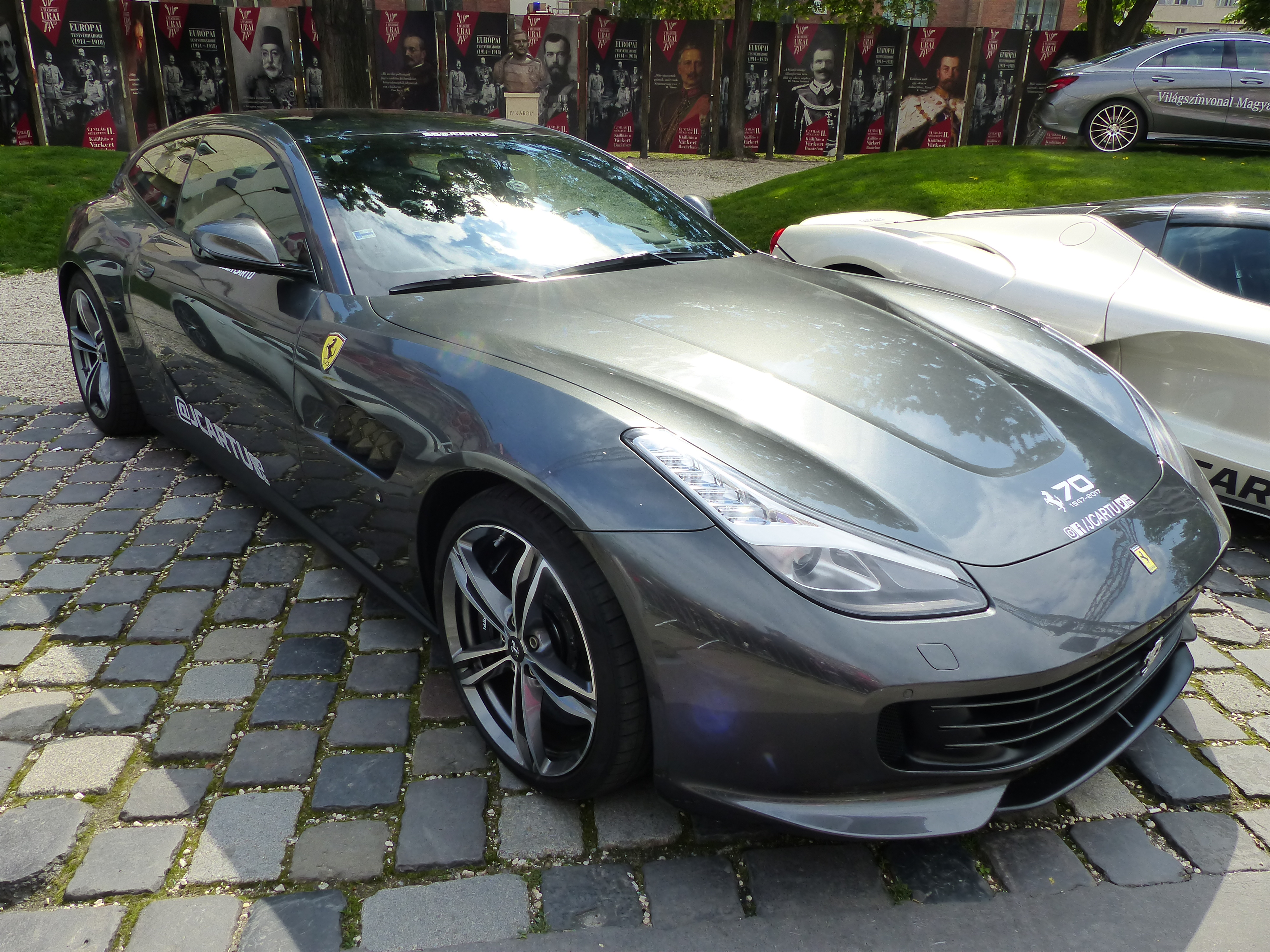 Nagy Futam. Budapest, Hungary, Central Europe. Taken on the 30th of April, 2017. Before the day of Nagy Futam (1st of May, 2017) racing cars on display at the Városház park, Budapest.